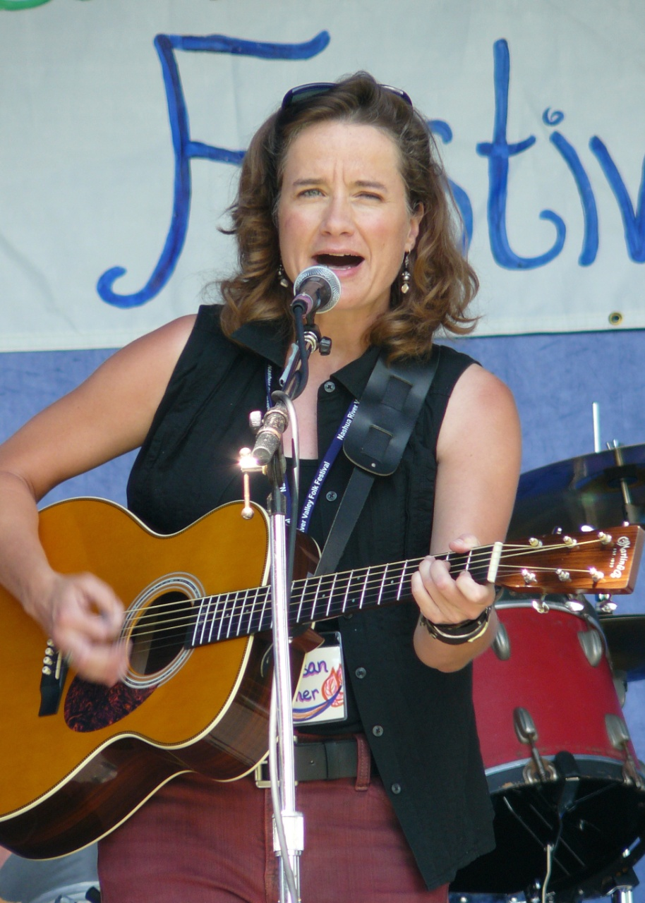 Nashua River Valley Folk Festival; Lancaster MA; August 10, 2008 Susan Werner